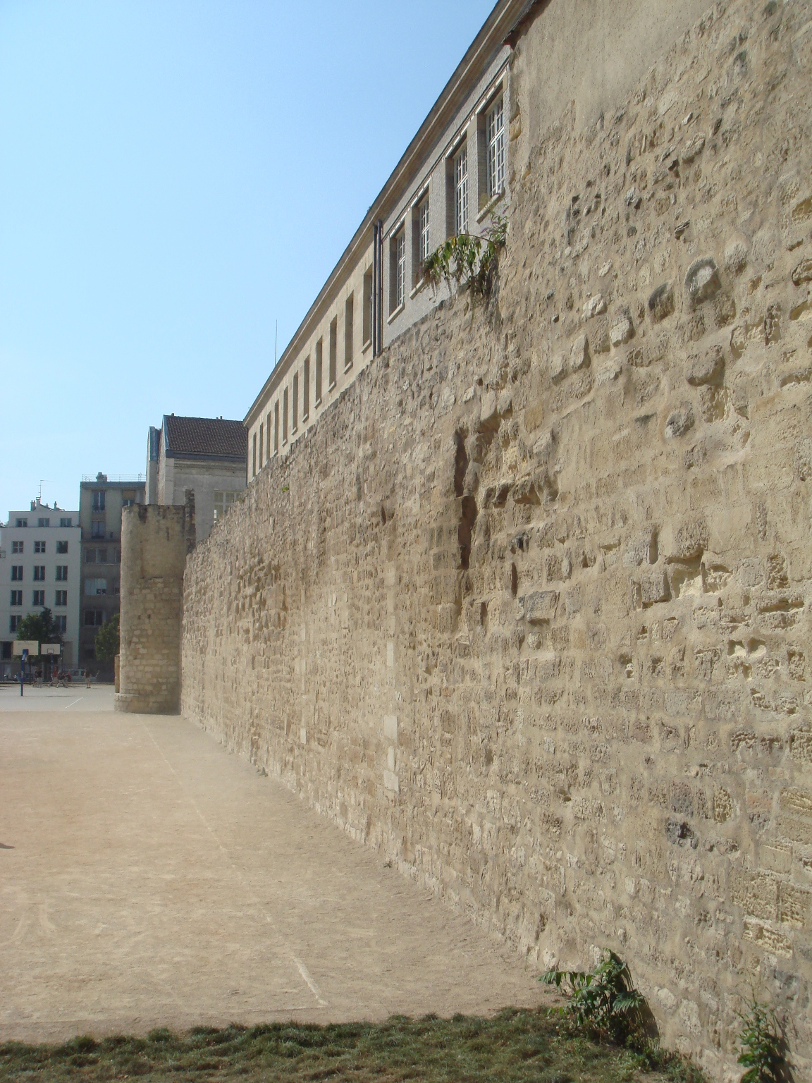 Wall_of_Philippe_Auguste_in_Paris